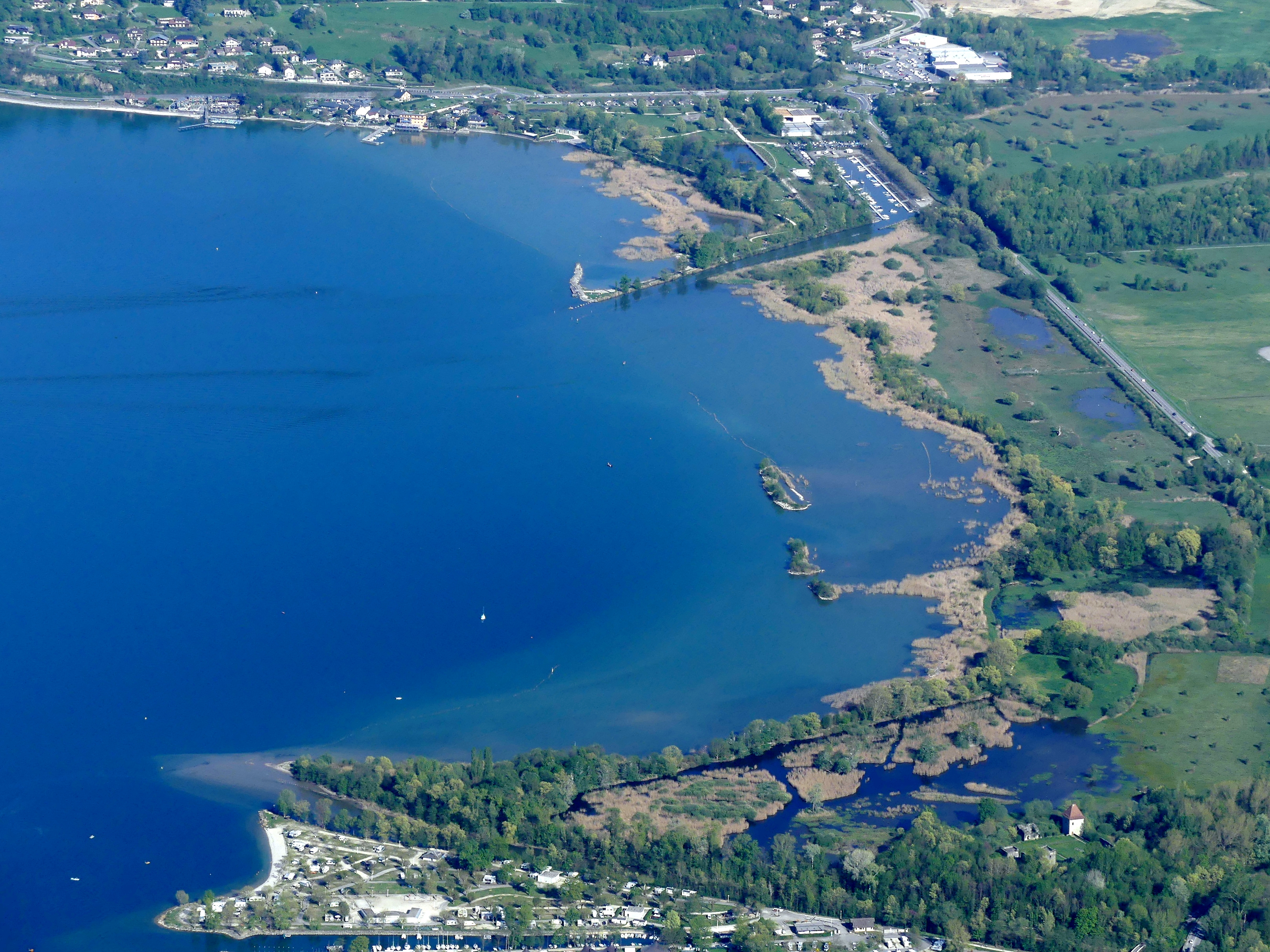 Sight, from the top of the Mont du Chat mount (1,500 meters high), of the Southern side of the lac du Bourget lake, in Savoie, France.